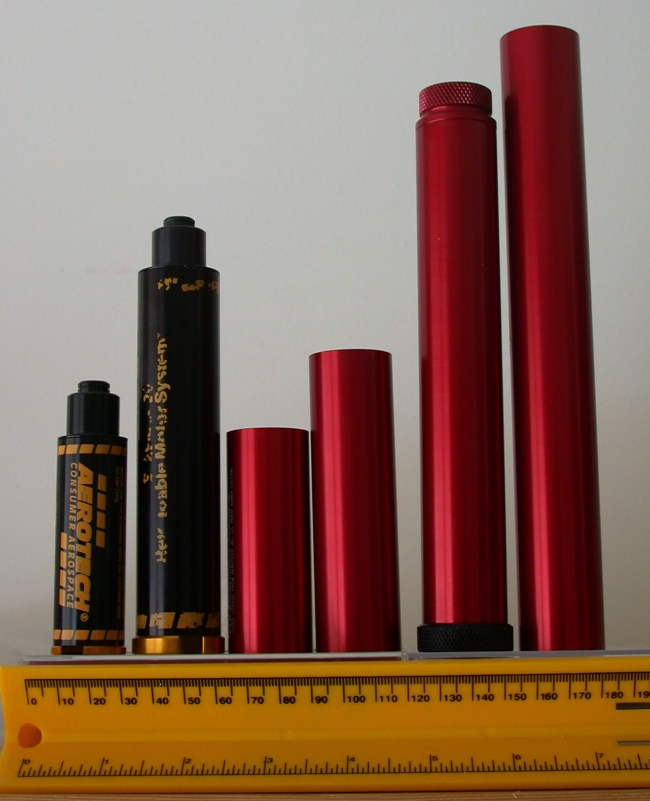 Taken by Nicholas Cassavaugh (cassavau) 454645645645664 This is a picture of several reloadable motor casings for the Model Rocket page. Includes ruler in both English and Metric units for scale.